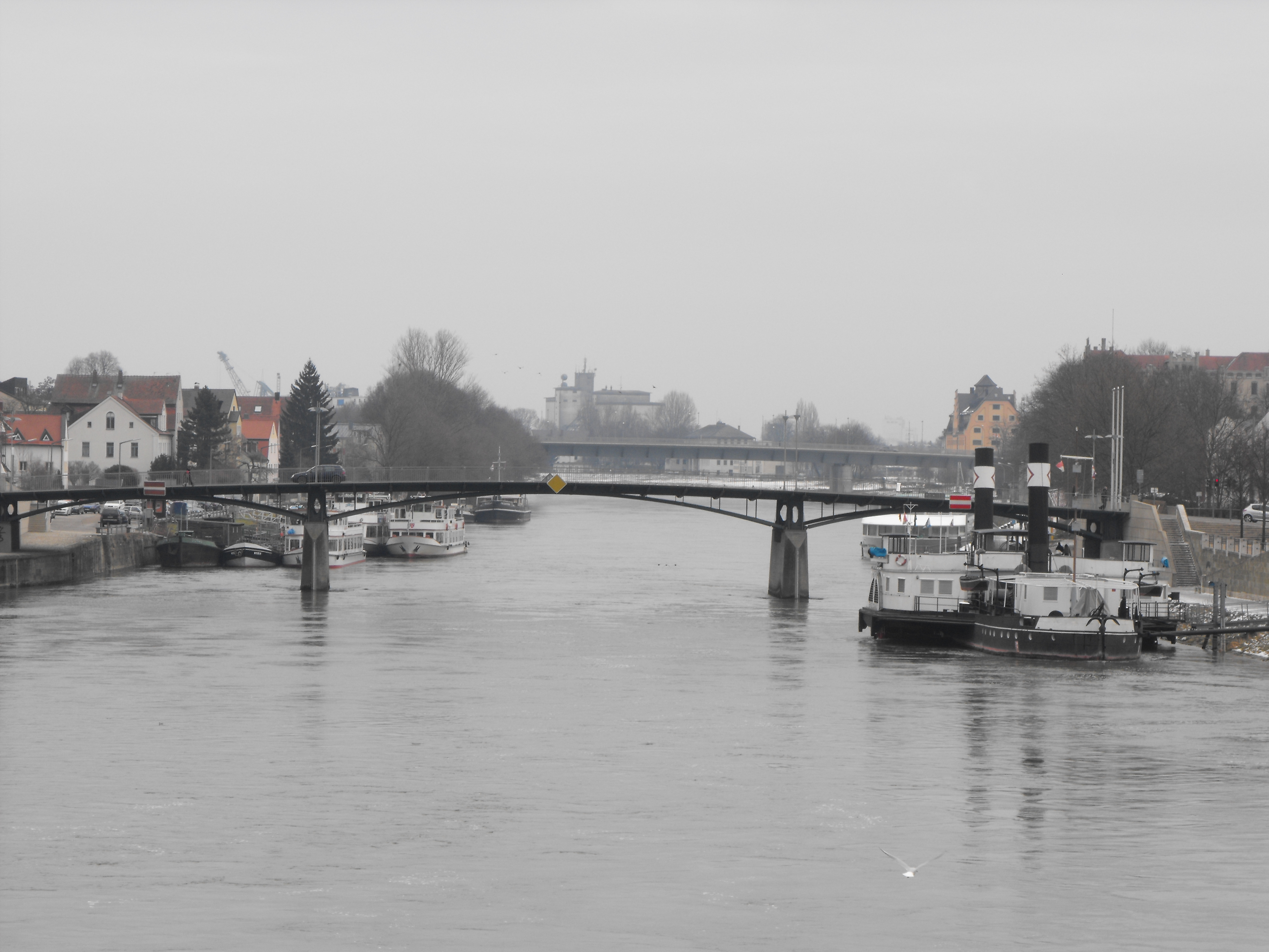 Donau, Regensburg, Germany, Brücken im Bild: vorne die 'Eiserne Brücke', im Hintergrund die 'Nibelungenbrücke'.